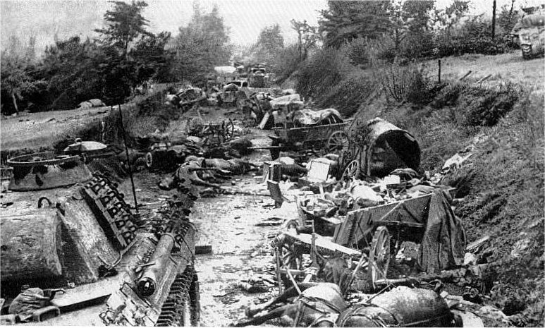 German column destroyed by 1st Polish Armoured Division in Normandy 1944.